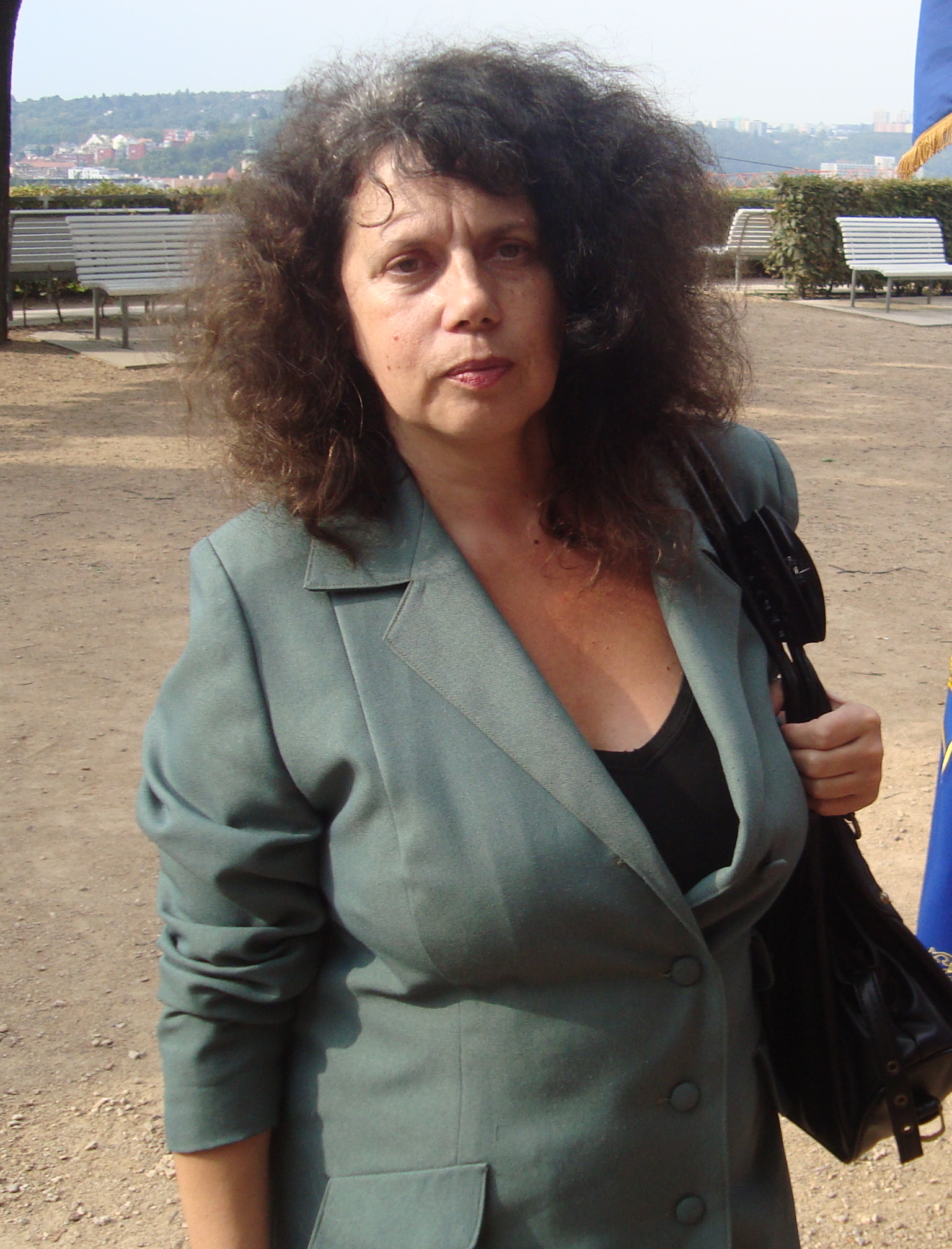 Alena Ovcacikova